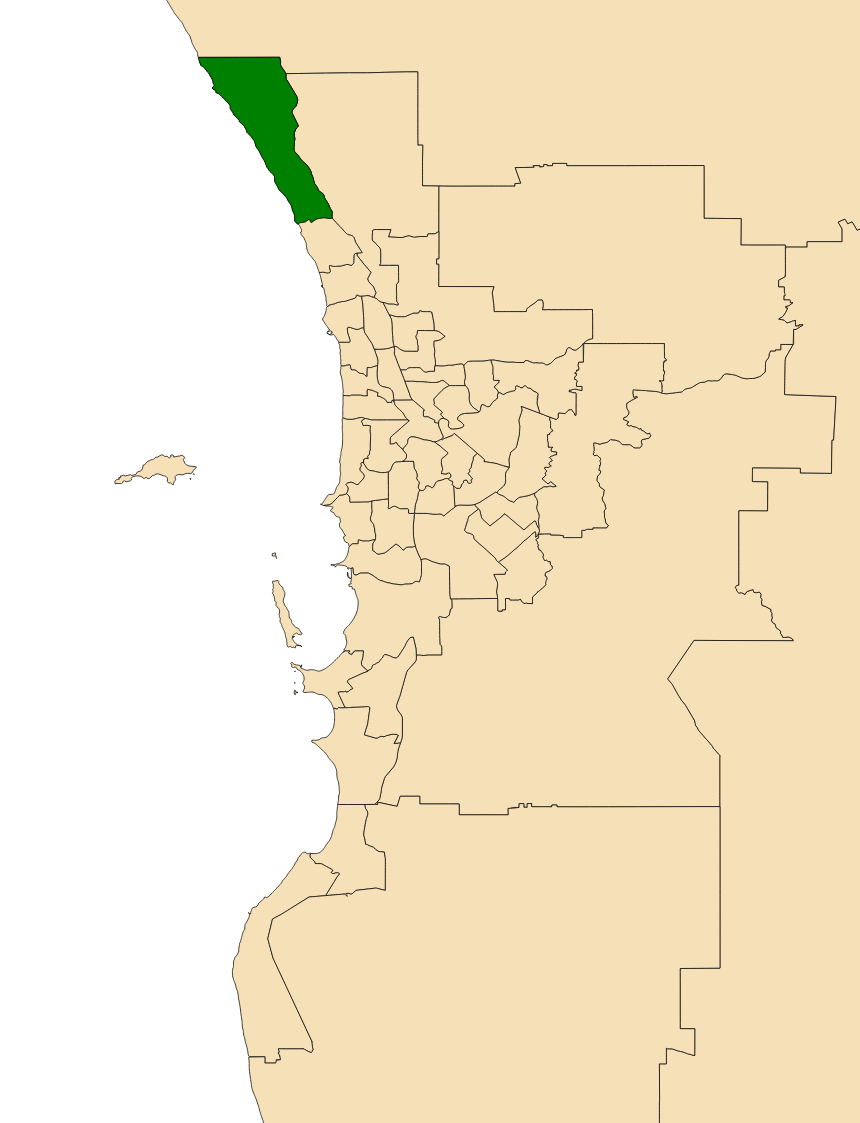 Location of the electoral district of Butler in the Perth metropolitan area, Western Australia as of the 2017 WA state election.